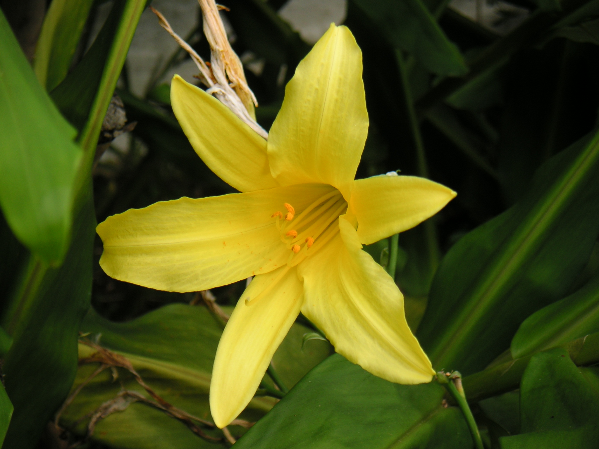 Hemerocallis minor, Hemerocallidaceae, Cali / Kolumbien